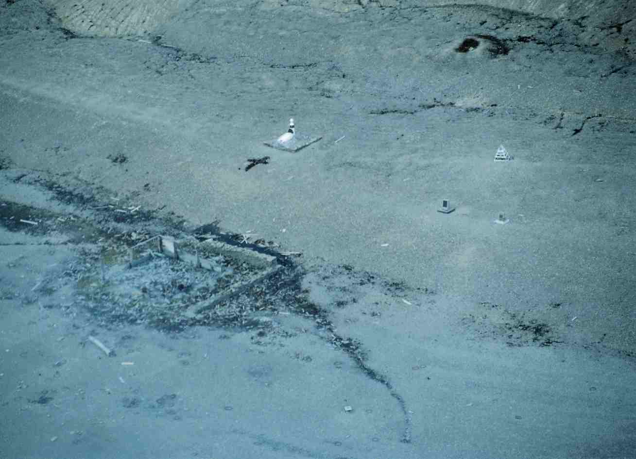 Relicts of Northumberland House; Belcher column; pyramid of memory on Beechey Island